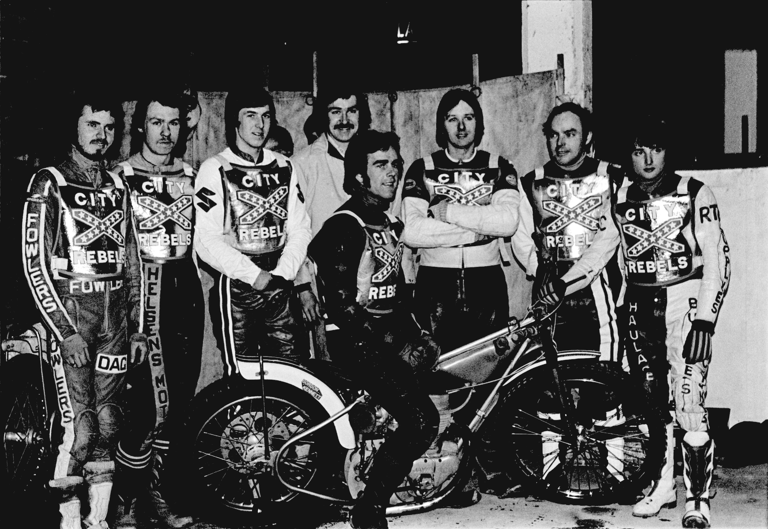 Opening night at White City Speedway - 24th March 1976. The White City Rebels speedway team